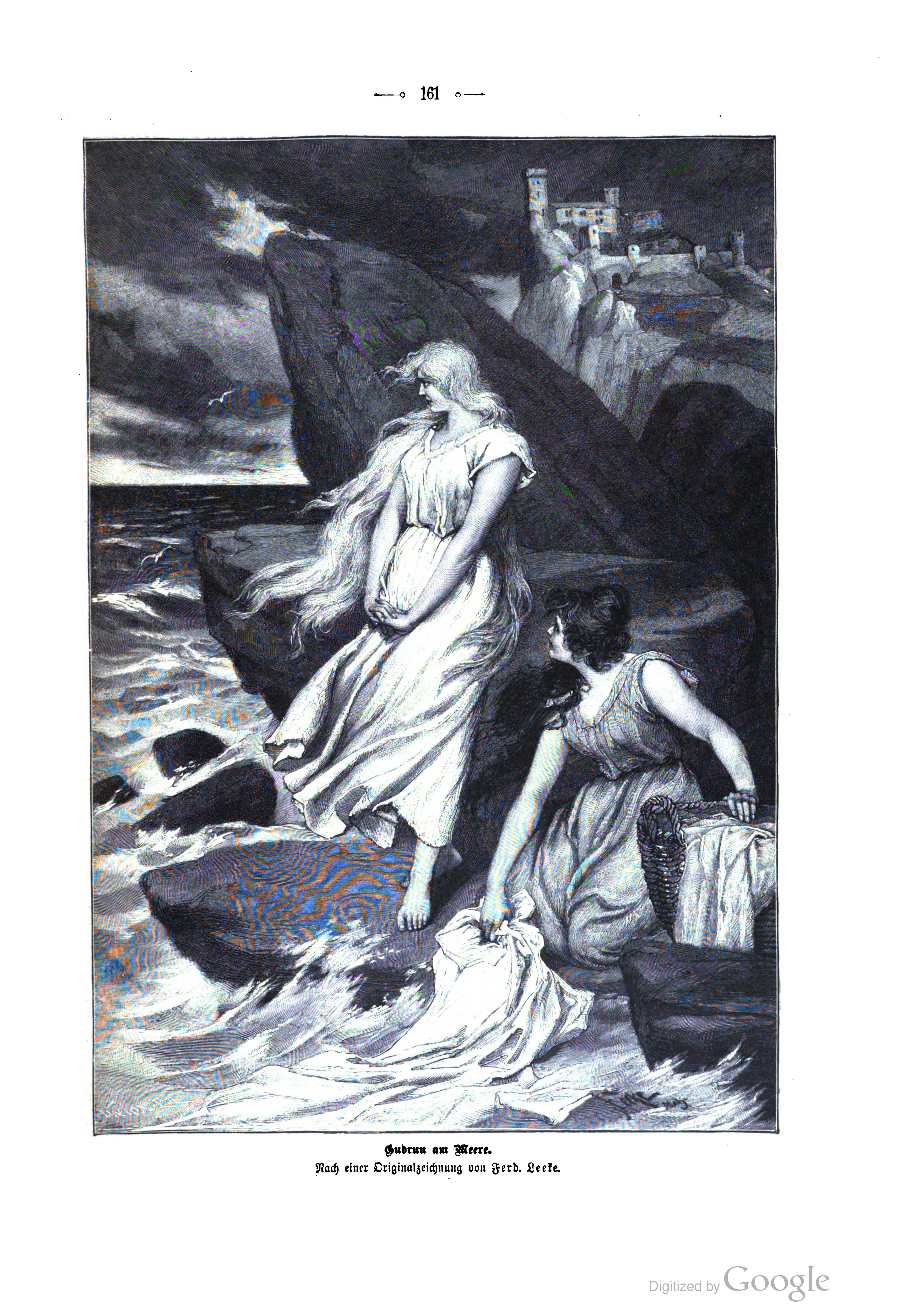 no caption